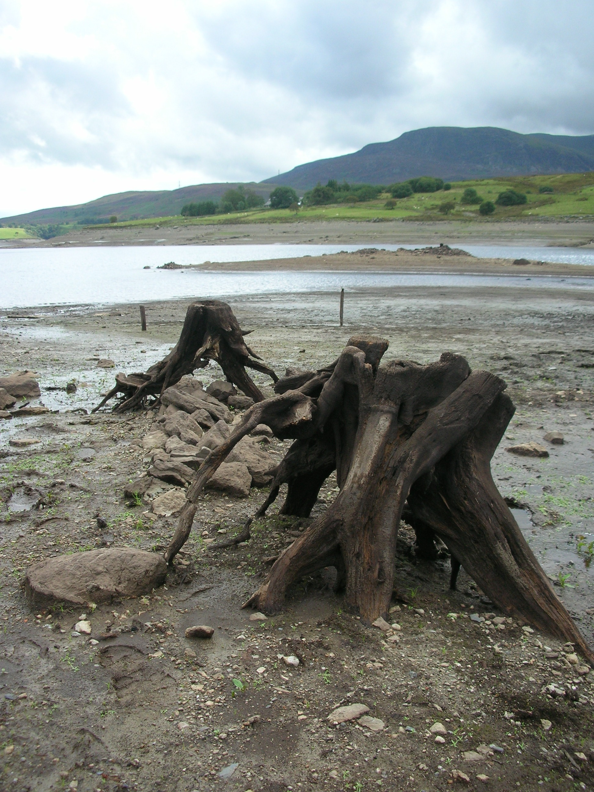 Tree stumps and part of stone wall at Capel Celyn in Wales, exposed by low water levels of the Llyn Celyn reservoir, which drowned the village in the early 1960s. Photographed by me, 5 September 2006. Oosoom 11:02, 7 September 2006 (UTC)